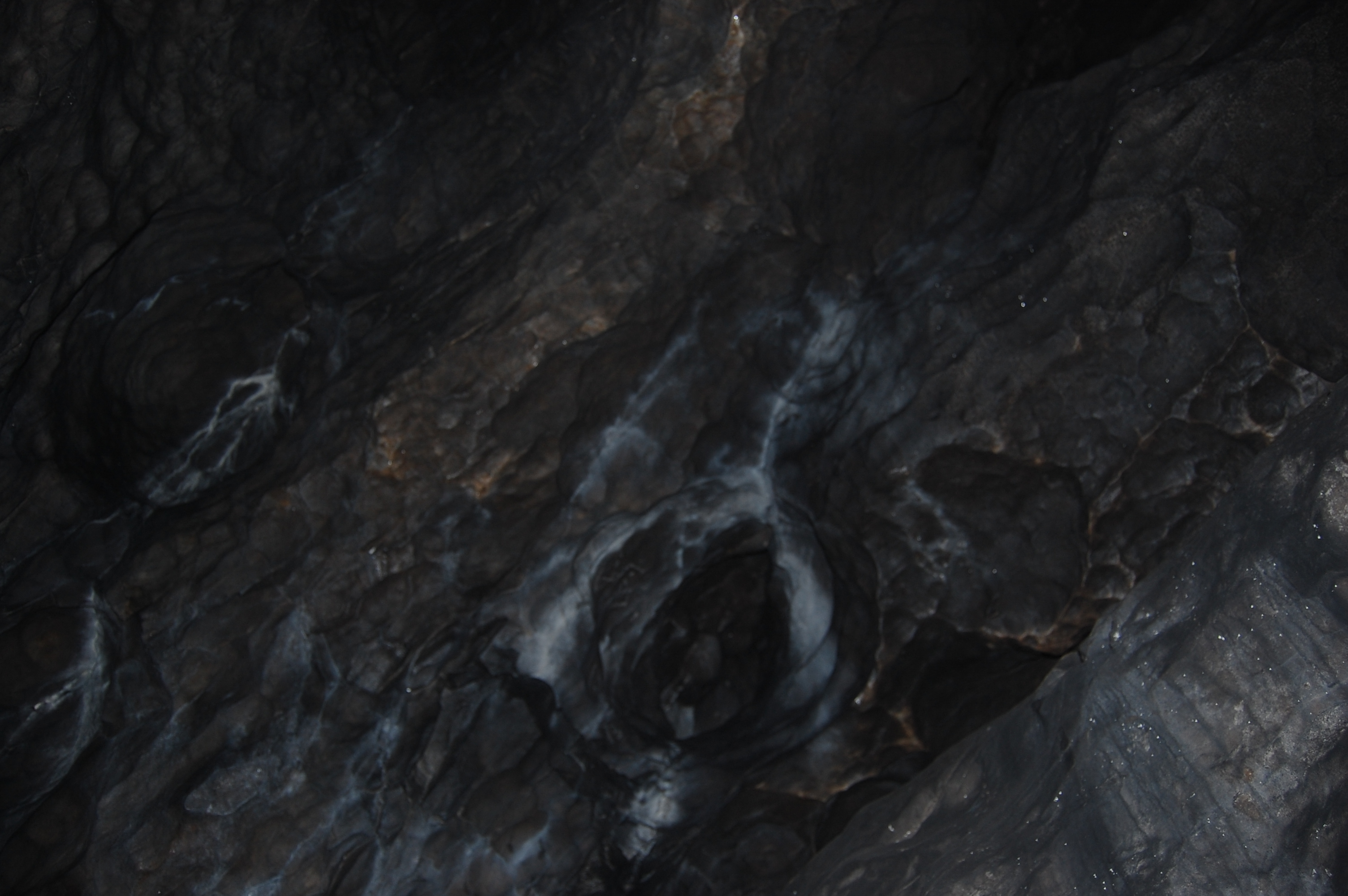 Sugomak Cave ceiling (3rd grotoo)